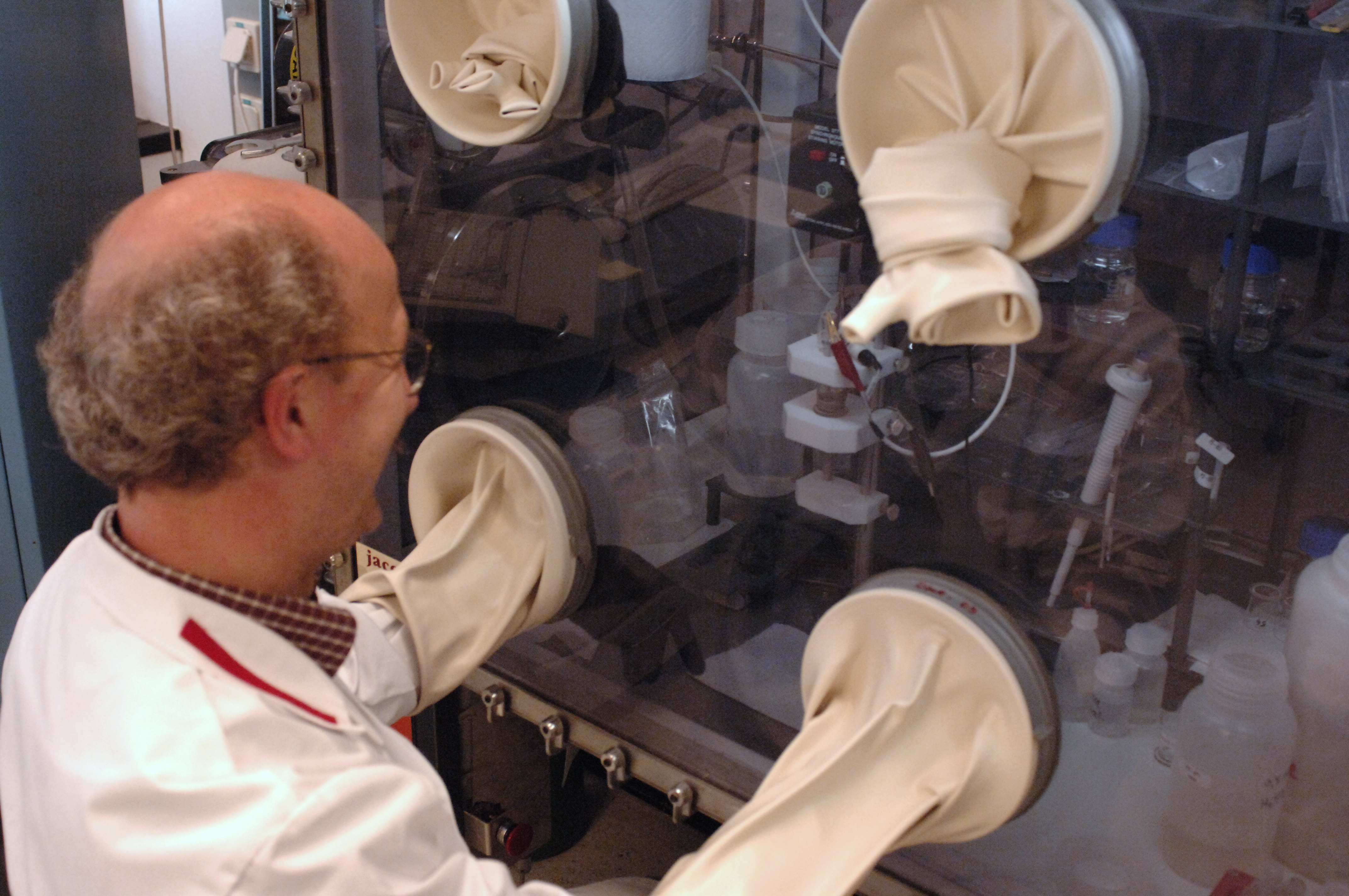 Plutonium Laboratory at Seibersdorf Analytical Laboratory. Photo Credit: Dean Calma/IAEA